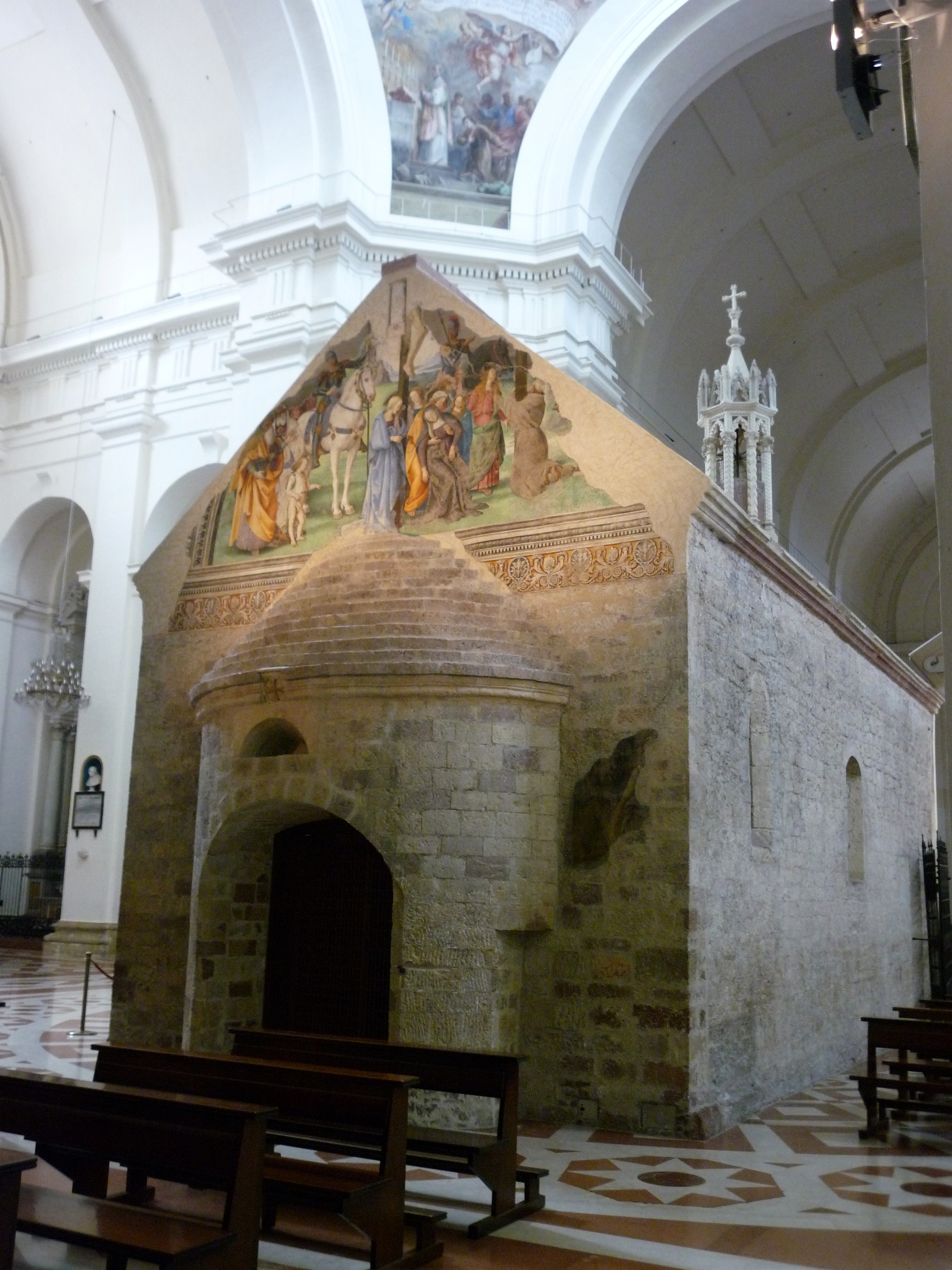 Porziuncola inside the Basilica of Saint Mary of the Angels (Santa Maria degli Angeli), Italy